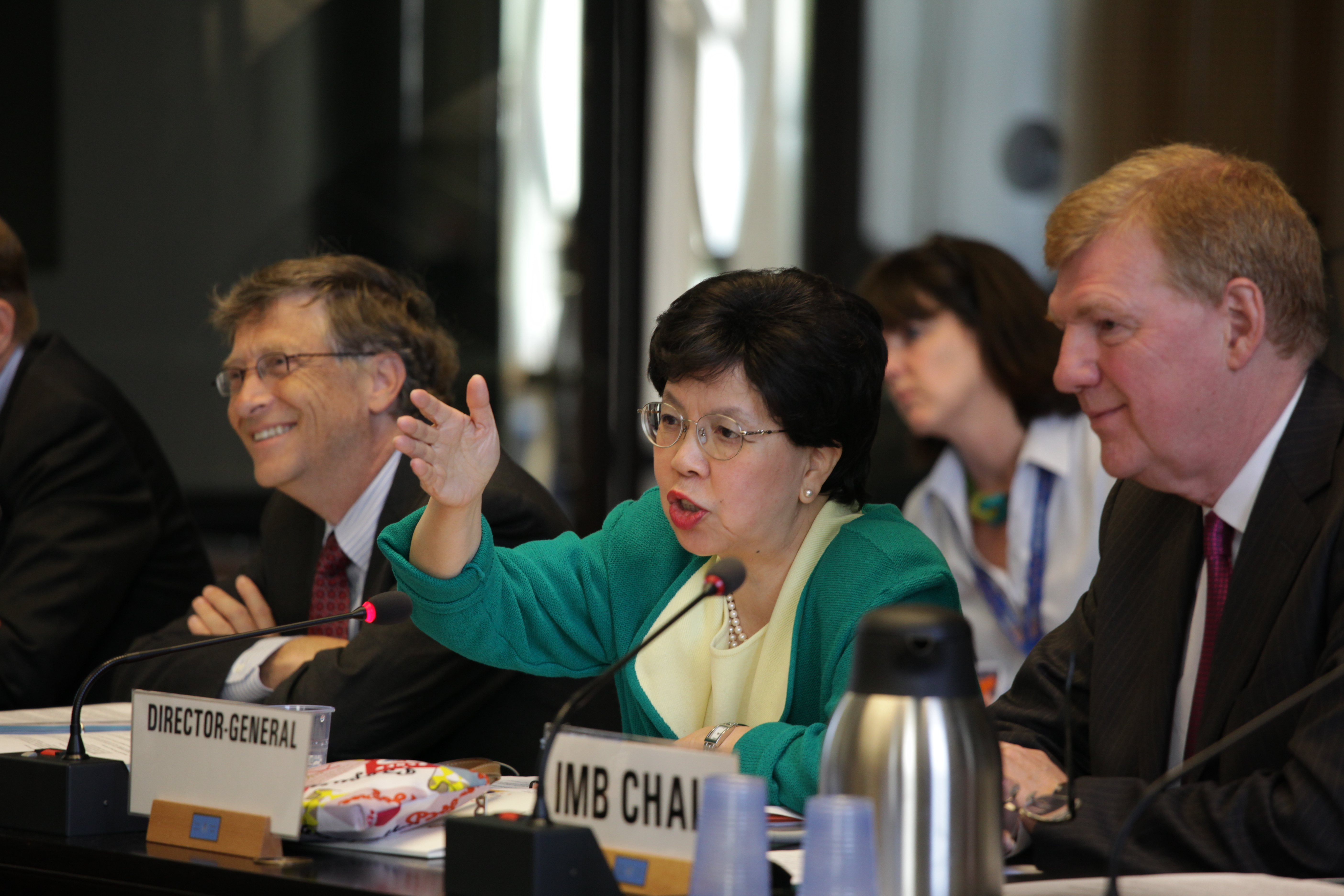 World Health Assembly 2011: The Bill & Melinda Gates Foundation organized a meeting on ending Polio. Public health officials from almost 200 nations are meeting in Geneva May 16-24, trying to devise strategies to address the many health problems that shorten life and diminish its quality for millions of people. U.S. Secretary of Health and Human Services Kathleen Sebelius is leading the U.S. delegation of about 25 to the World Health Assembly, which is the annual gathering for member states of the World Health Organization (WHO). A major focus of the meeting will be WHO's first Global Status Report on Noncommunicable Diseases which found that diseases such as cancer, cardiovascular disease, respiratory disease and diabetes cause the greatest number of deaths each year – 63 percent of all deaths worldwide in 2008. U.S. Mission Photo by Eric Bridiers